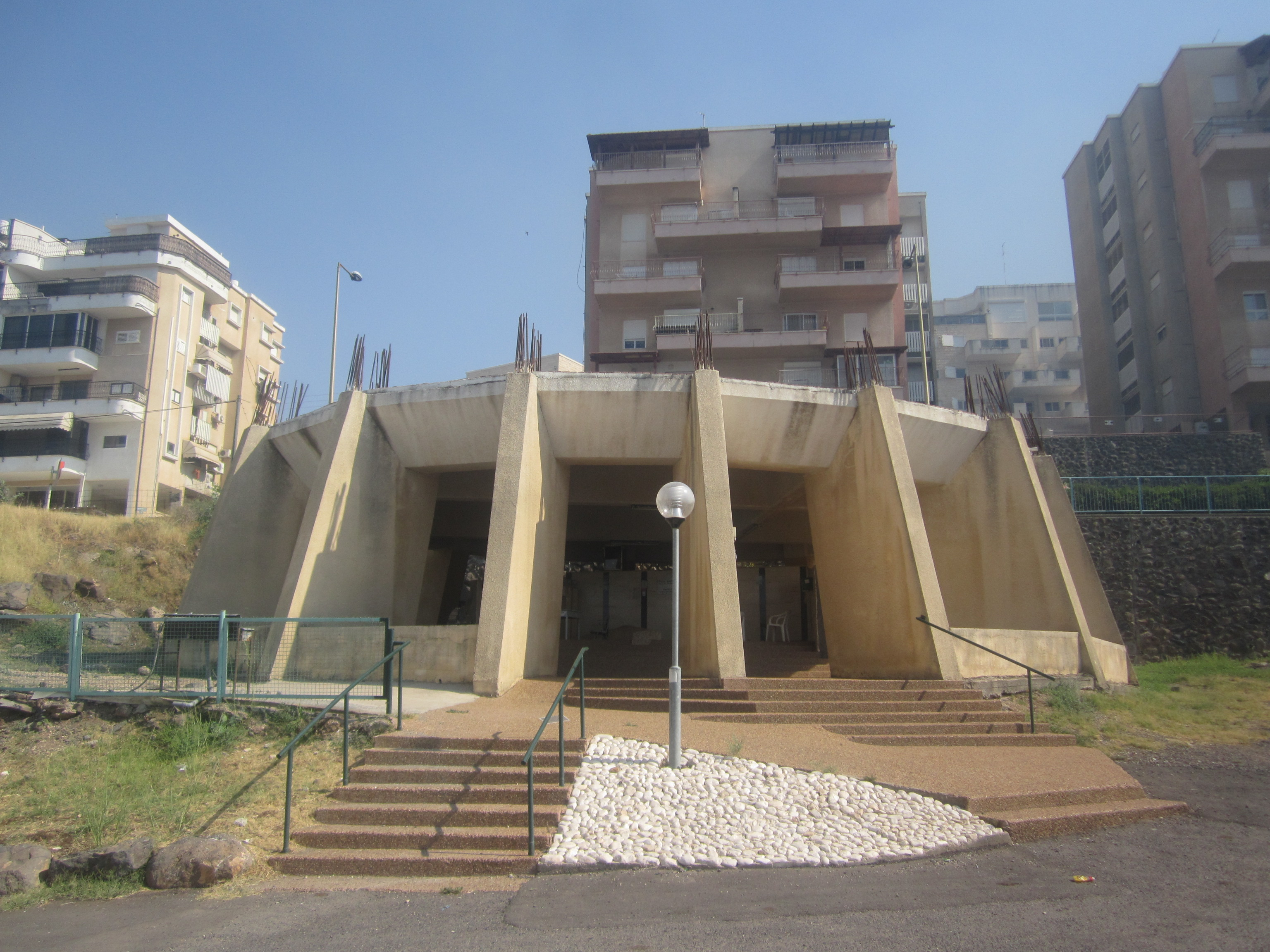 matriarch graves in tiberias קברי האמהות בטבריה